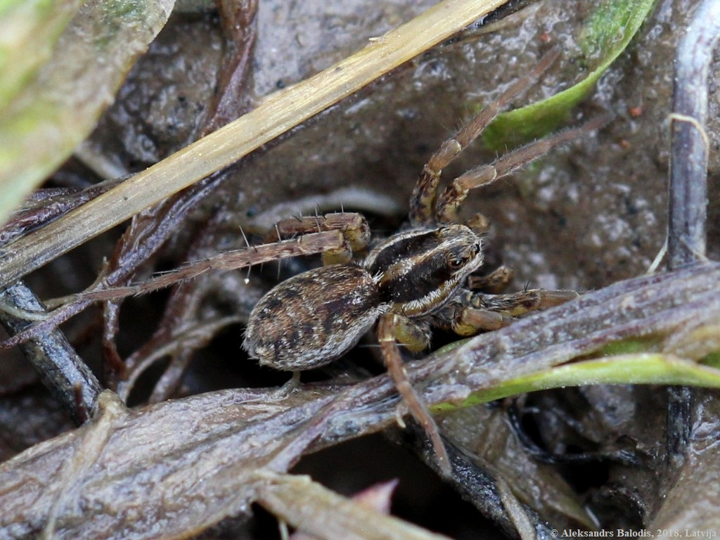 Pardosa monticola